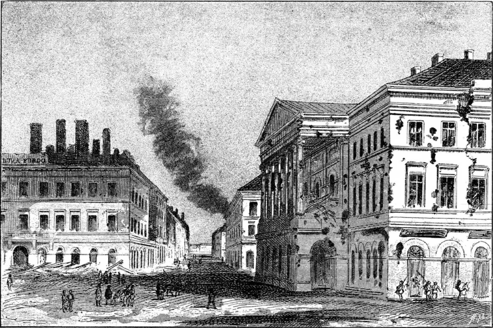 The damages caused by the bombardment of Pest by the imperials: Lloyd-building